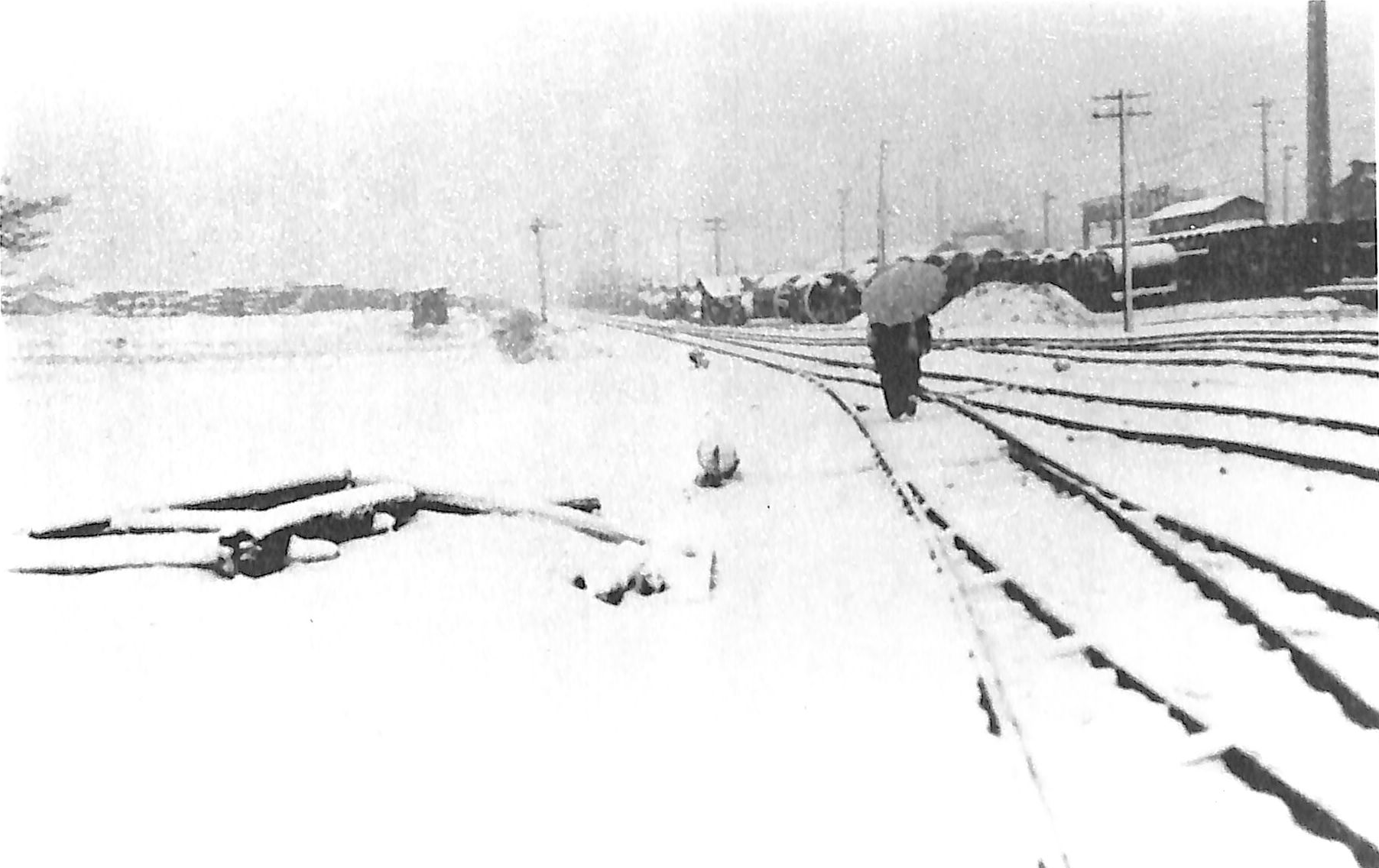 This is around Tsukuba Railway Manabe station in early Showa era. Hume pipes produced by H-NAC CO.,LTD is in the right side of this photo.